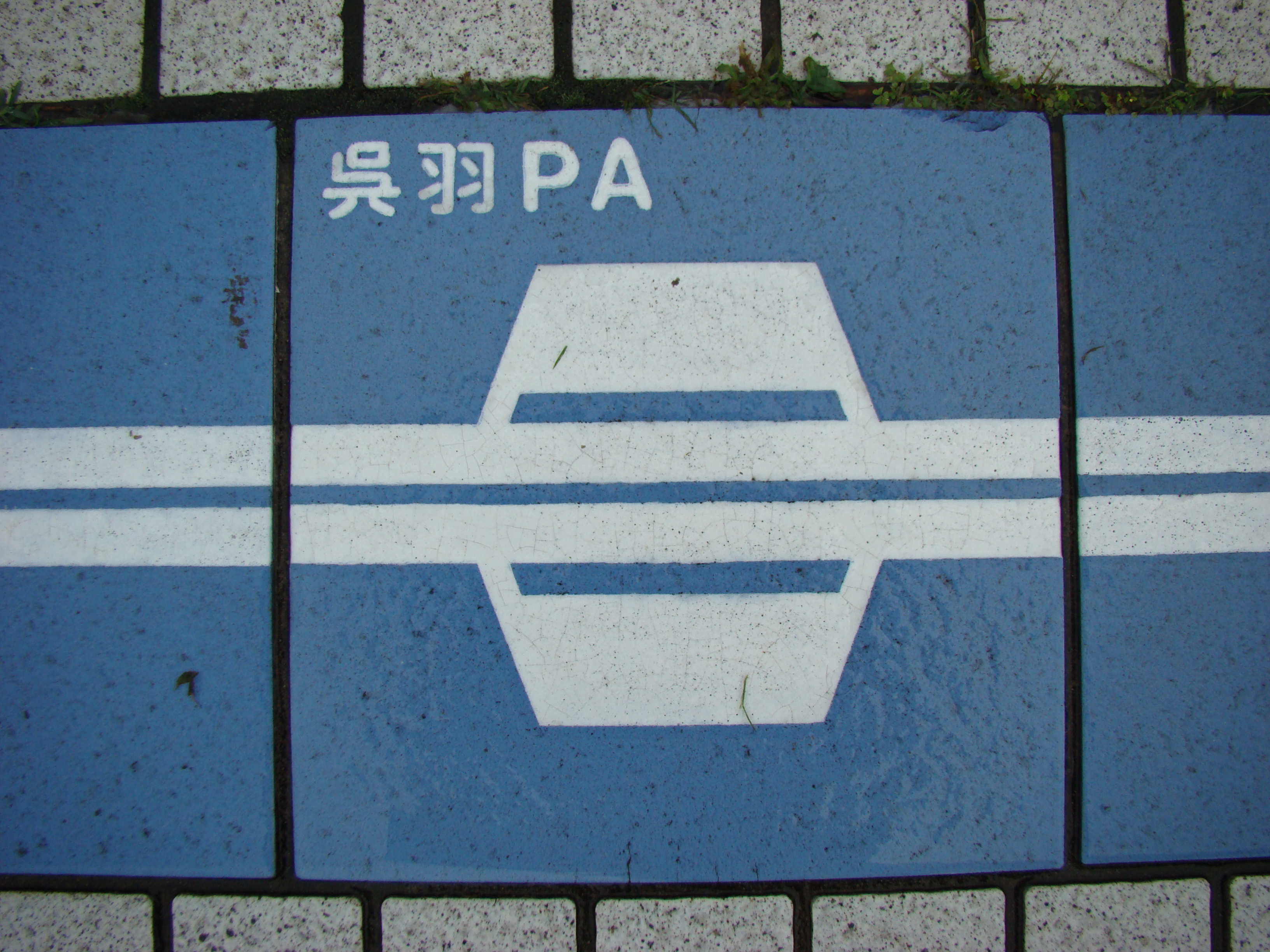 The tile which designed a shape of the Kureha Parking Area（Hokuriku Expressway）（There is this tile in Hokuriku Expressway Nadachi-Tanihama Service Area.）. Place - Chayagahara,Joetsu City,Niigata Prefecture,Japan Date - August 9, 2009 Format - JPEG, 3264x2448pixel, 24bit colors. Photographer - NALA Wiki (talk)